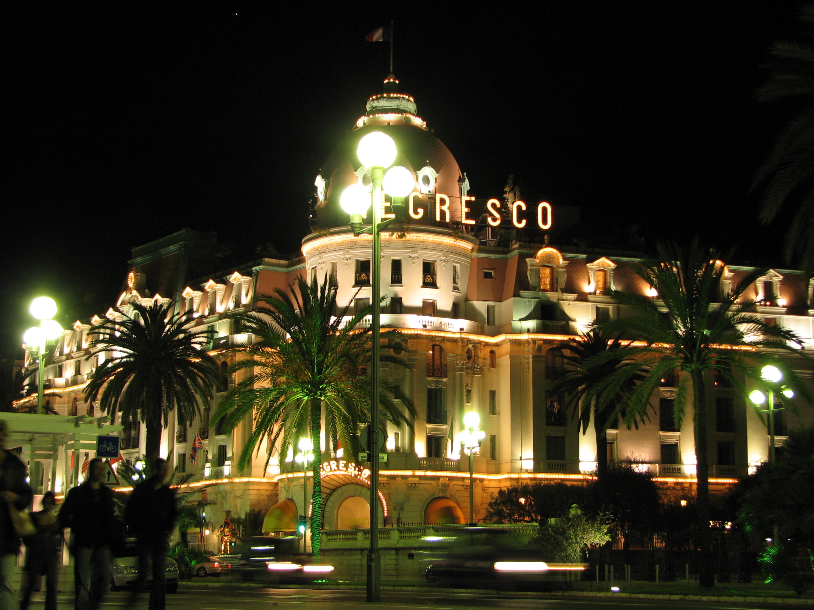 Nicea, słynny hotel Negresco